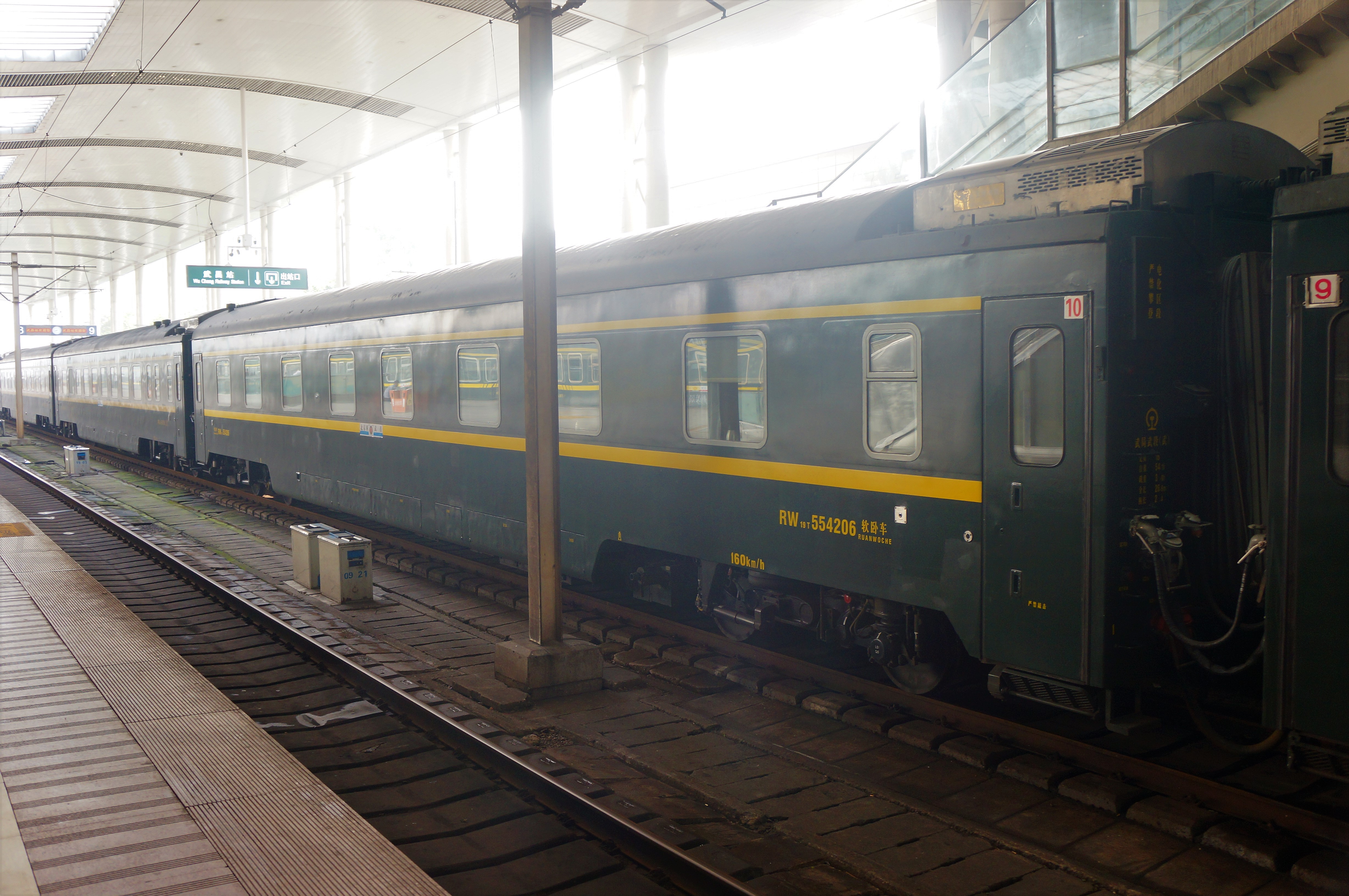 201906 RW19T-554206 from Z37 at Wuchang Station